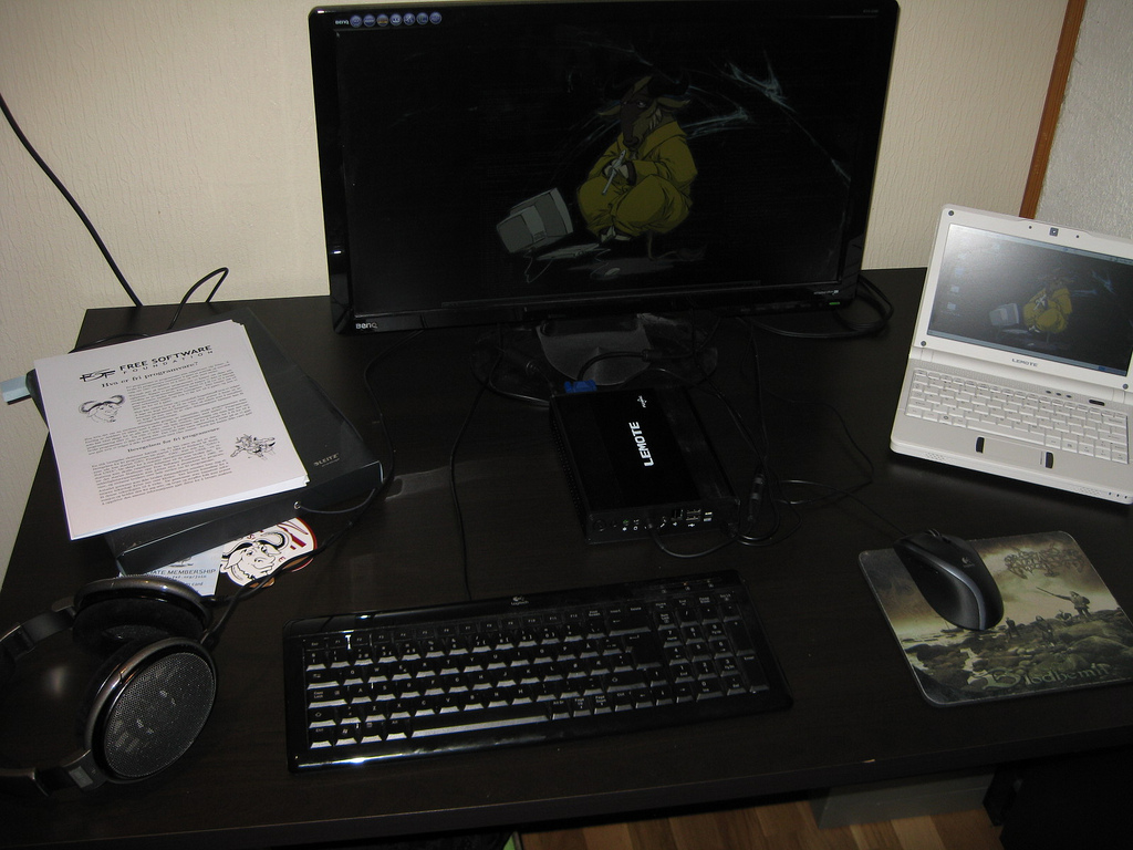 A picture of the Lemote FuLoong and YeeLoong running the Debian GNU/Linux and gNewSense GNU/Linux operating system, both with the Fluxbox window manager.